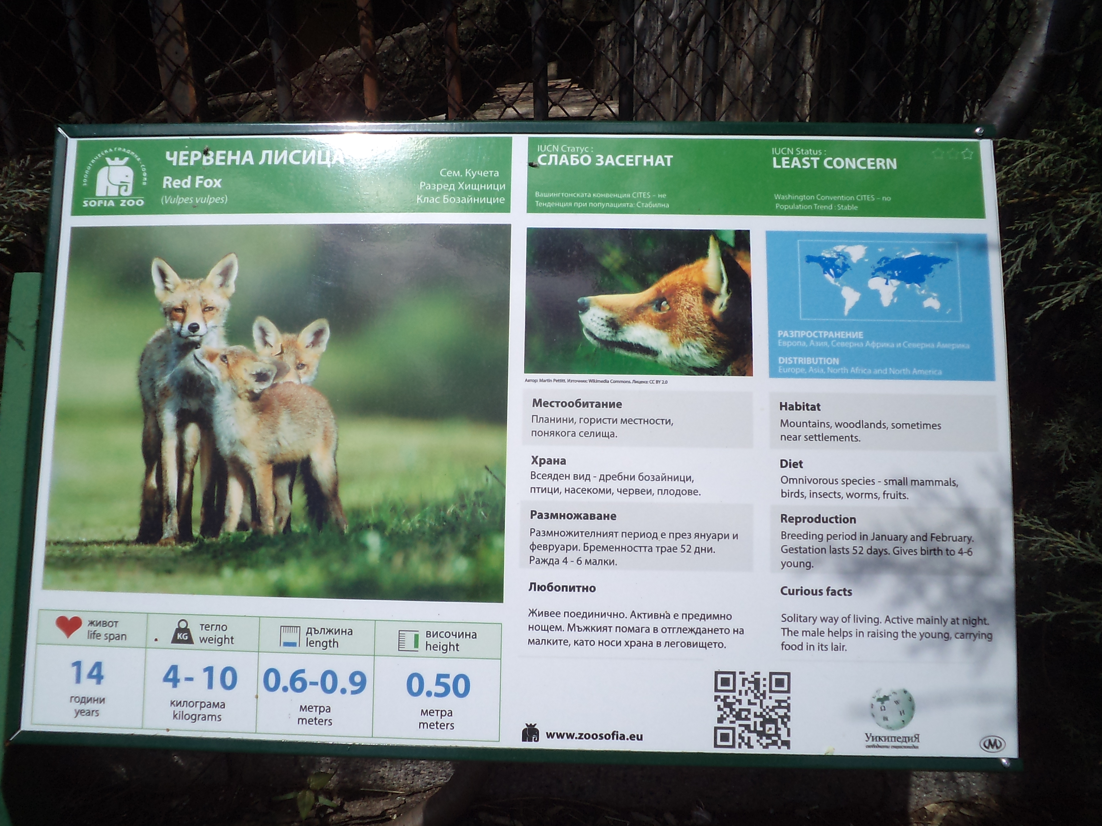 Mounted Wikimedia funded infoboard for Vulpes vulpes (red fox)